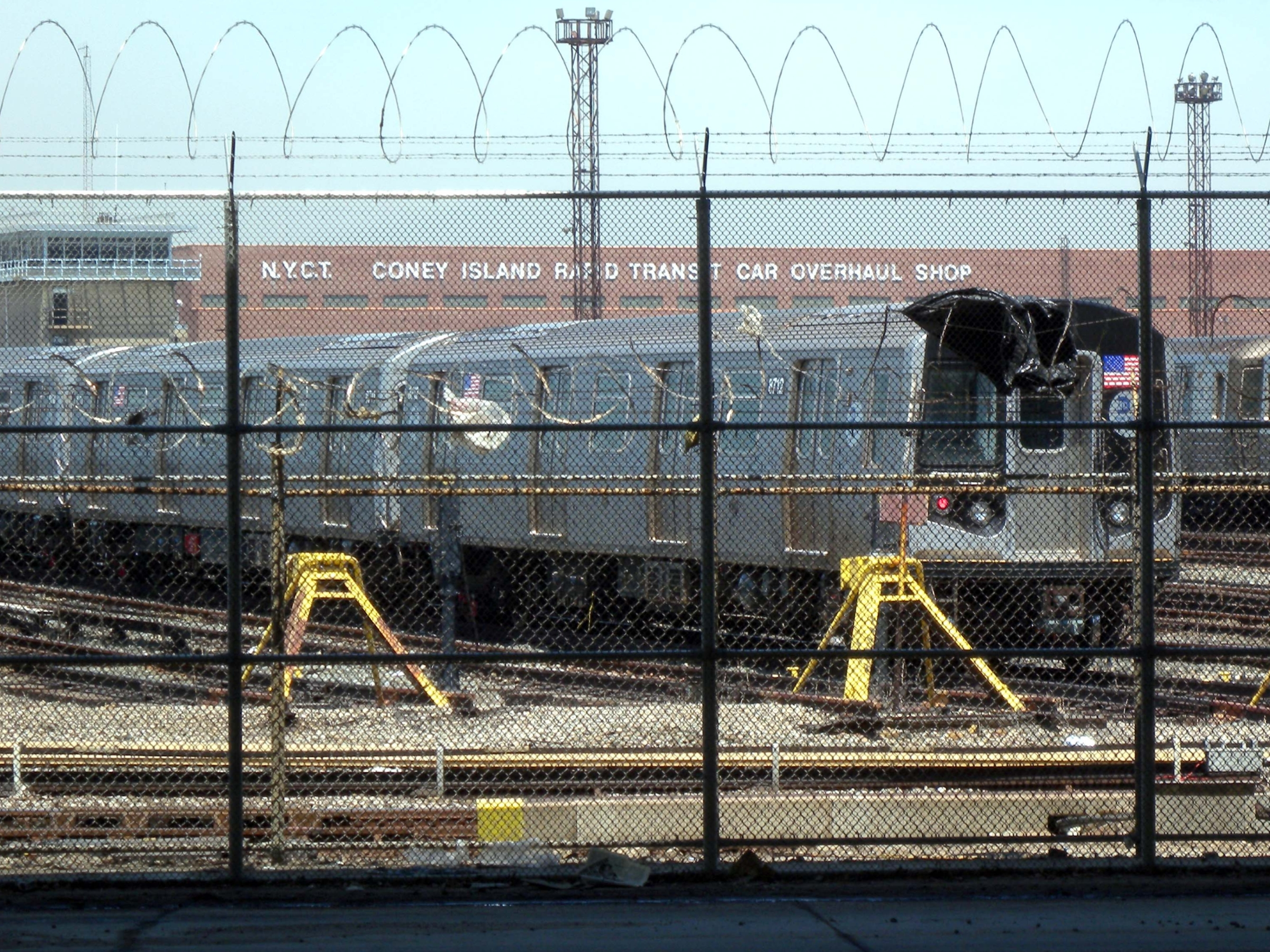 Looking northeast under Belt Parkway at F train storage and Coney Island Complex overhaul shop on a sunny midday. No, the front car doesn't have damage on top. Some black plastic sheeting is caught on the fence, is all.